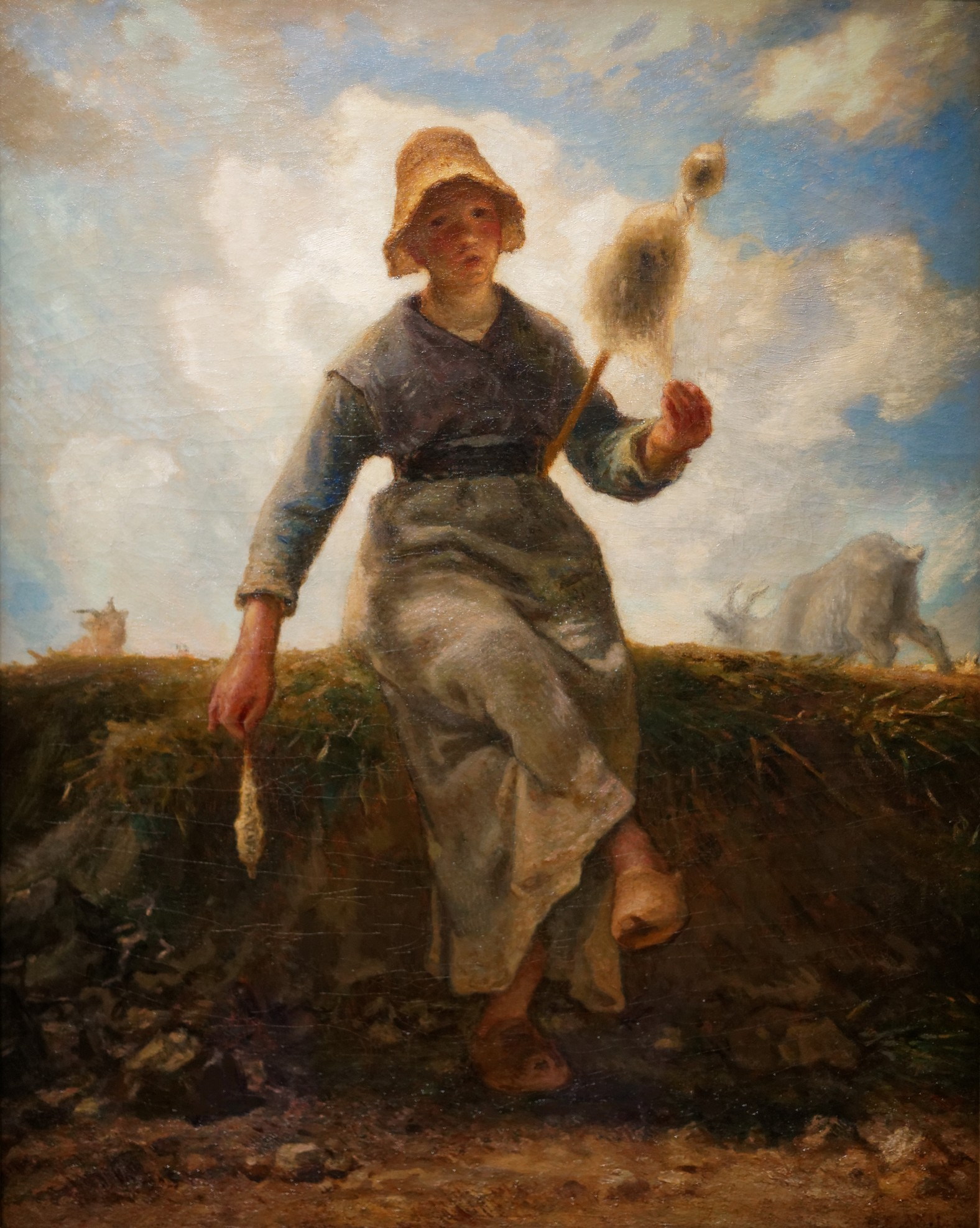 Naturalist portrait depicting a young peasant girl, spinning a length of wool.